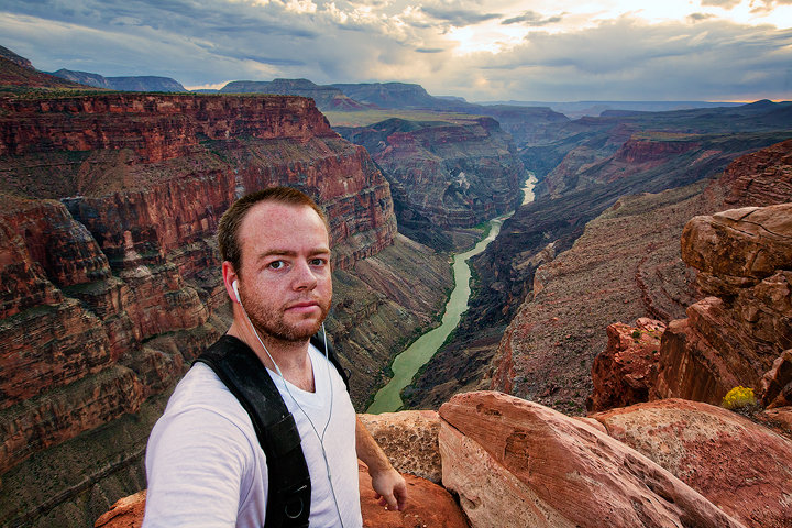 Terje Sørgjerd in Grand Canyon.